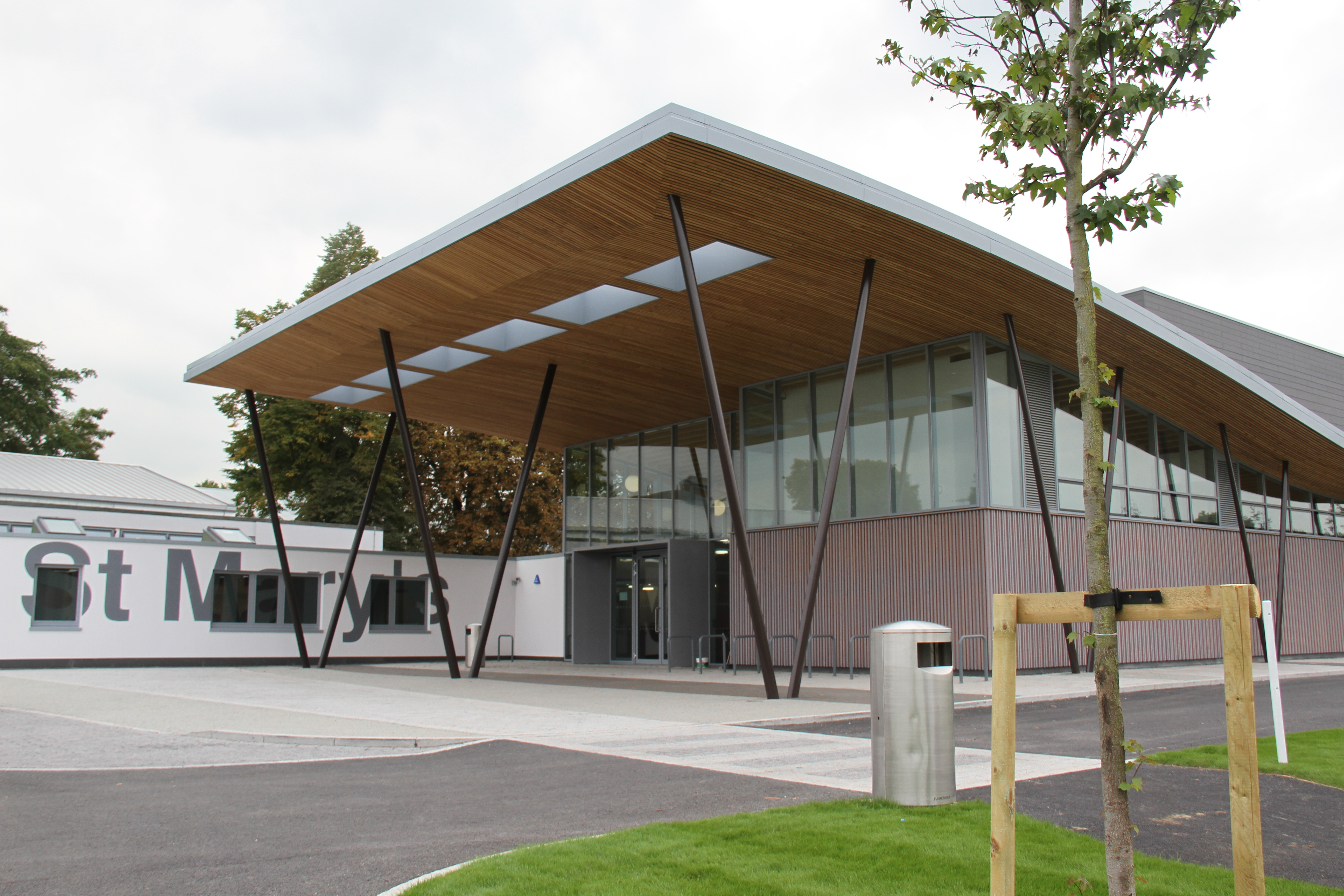 A picture of St Mary's sport facility.